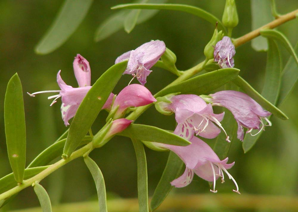 Photo of Eremophila maculata flowers at the Desert Demonstration Garden in Las Vegas